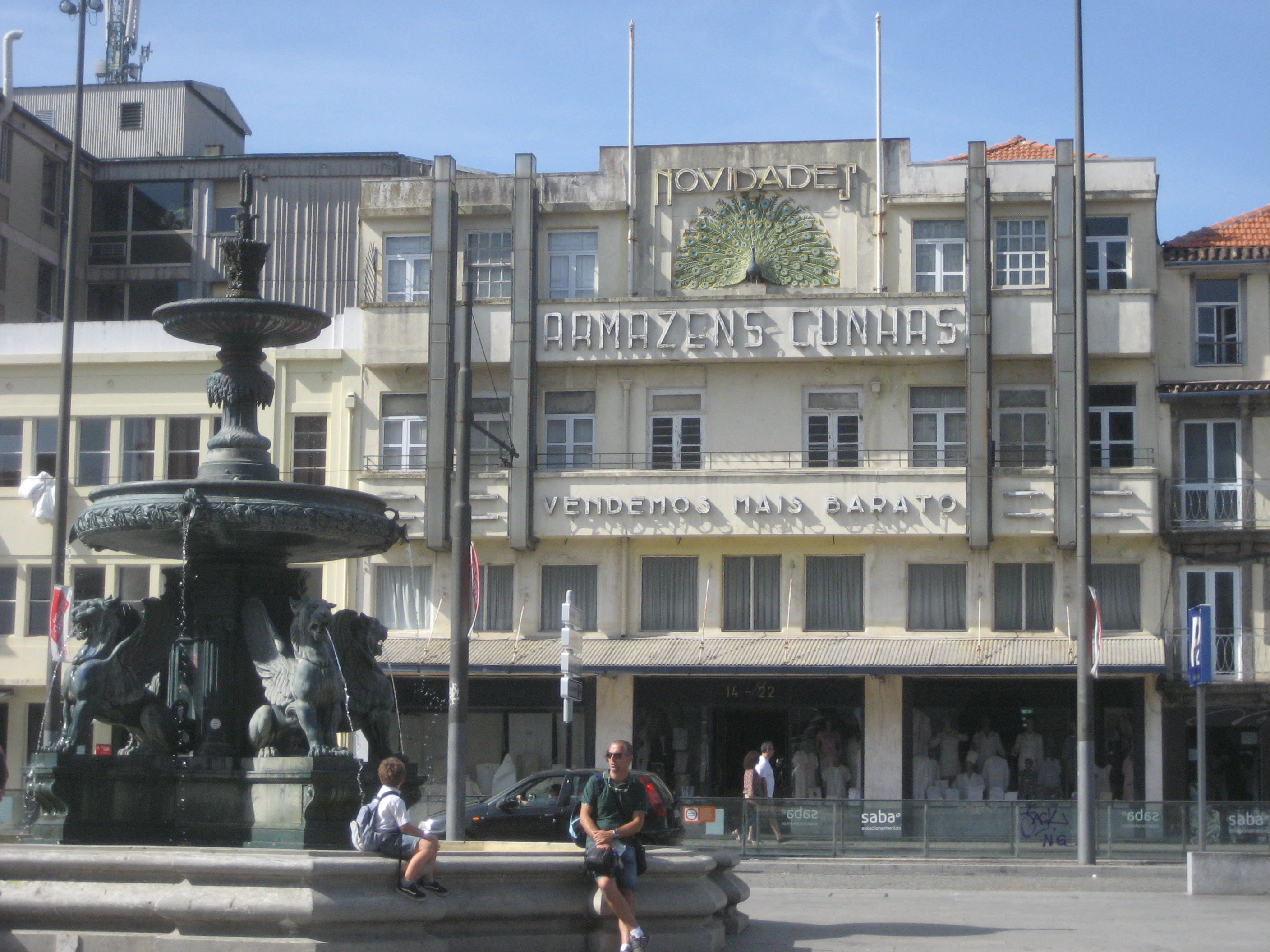 Department store Armazens Cunhas, Porto (Portugal). Art Deco architecture. Manuel Marques (architect). Left: Fountain of the Lions (Fonte dos Leões)